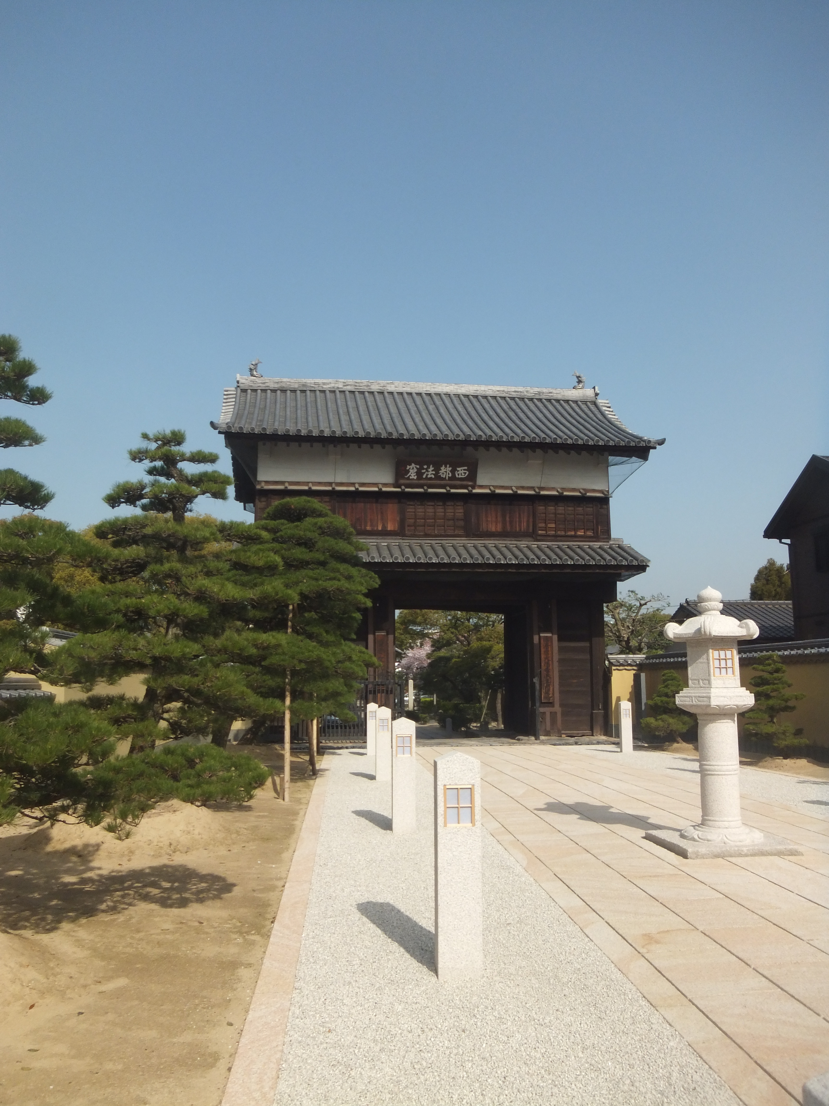 Main gate of teh Sōfuku-Temple (Sofuku-j) in Fukuoka (Japan)